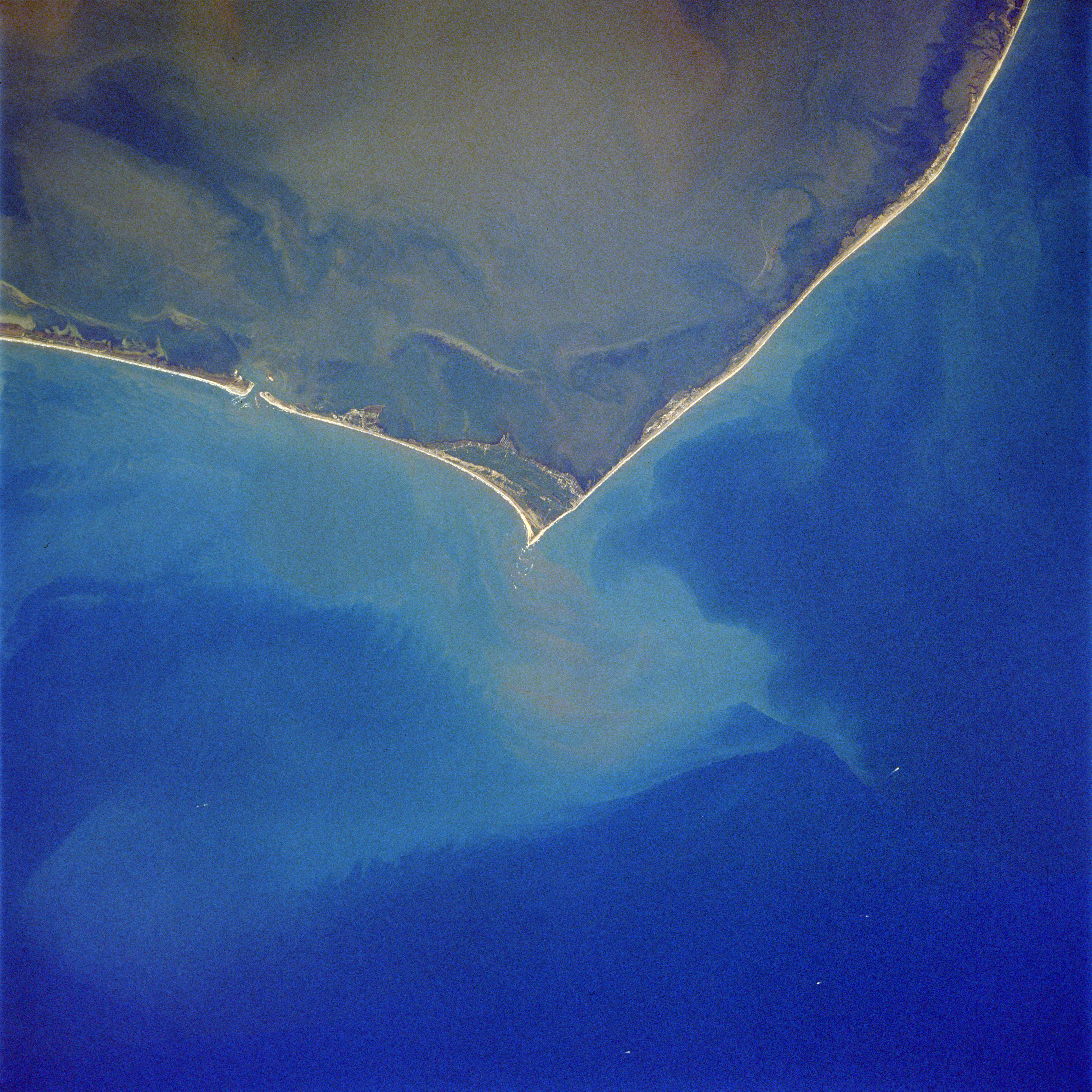 Cape Hatteras, North Carolina, USA - October 1989 The famous barrier island coast of Cape Hatteras, is visible in this near vertical of the North Carolina coast. This barrier island system is protected as the Cape Hatteras National Seashore, with Pamlico Sound to the west and the Atlantic Ocean to the east. A plume of sediment, visible off of the tip of Cape Hatteras, creates a light blue color in the Atlantic Ocean waters. This outflow is from the precipitation runoff of Hurricane Hugo (Sept. 1989) which was still evident during the STS-34 mission (Oct. 1989). This same delayed or extended runoff phenomenon was also very marked along the periphery of the Yucatan Peninsula following Hurricane Gilbert in 1988.